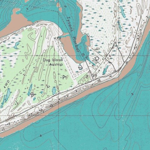 Topographical Map of Dog Island Airport